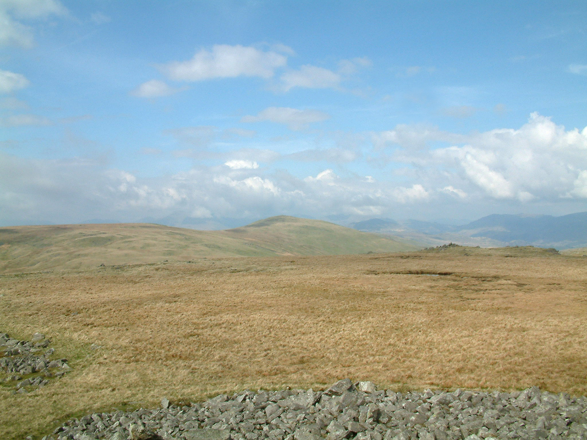 From the summit of Kinmont Buck Barrow, looking to the flat summit of Burn Moor and Whitfell (centre), with the Duddon Valley right. To the right of Whitfell's summit can (just) be seen Bowfell, Crinkle Crags hiding behind Harter Fell, then the gap of Wrynose before Grey Friar and Swirl How.